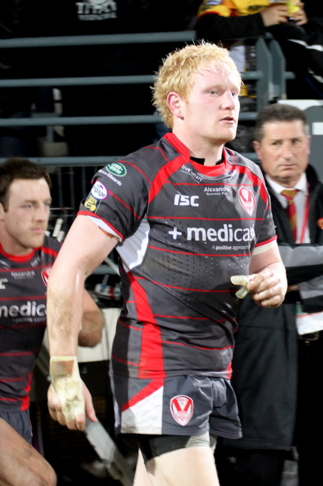 James Graham, English rugby league player